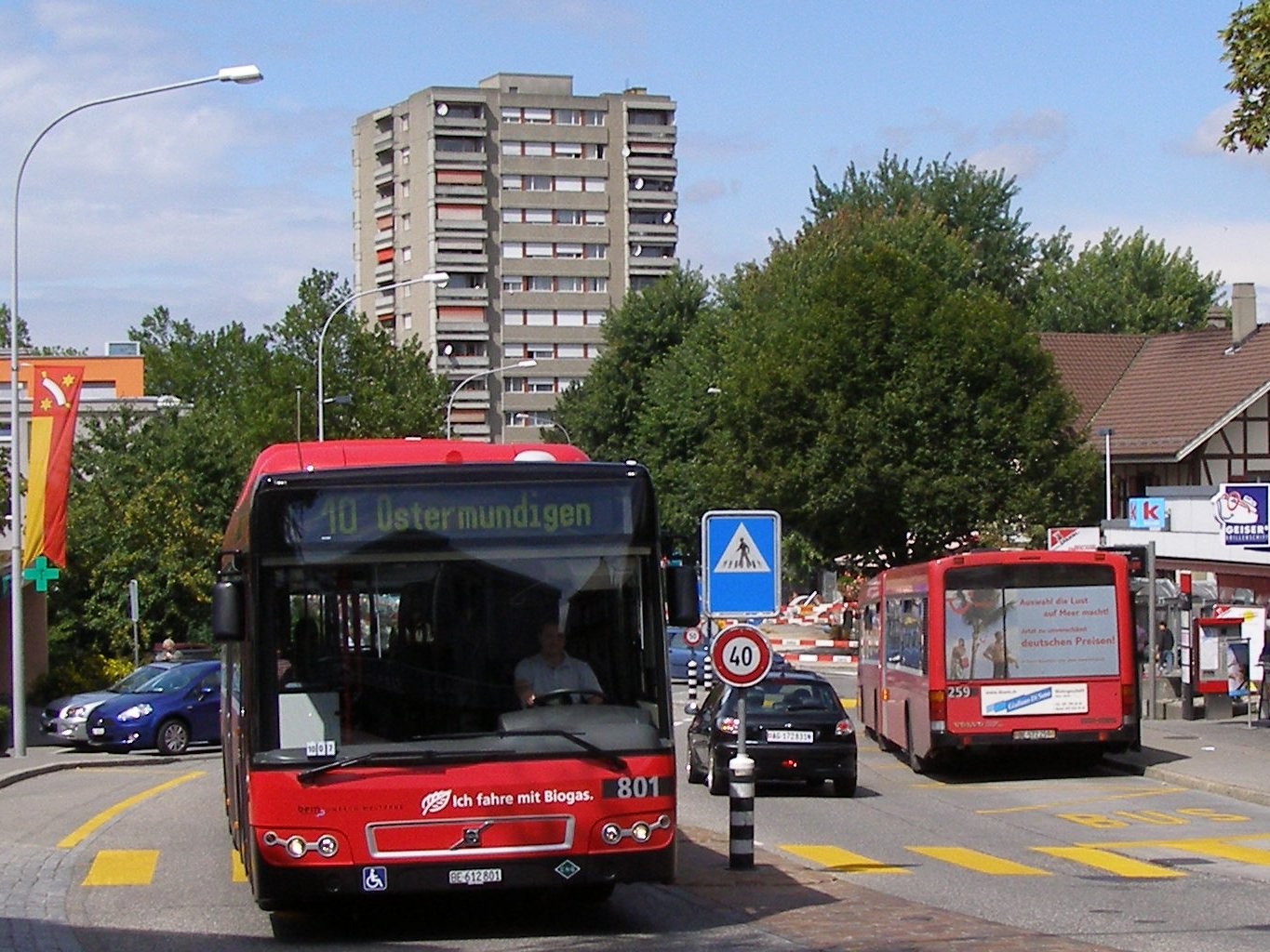 Bus Volvo 7700A CNG in Bern, Switzerland. Year built 2006.